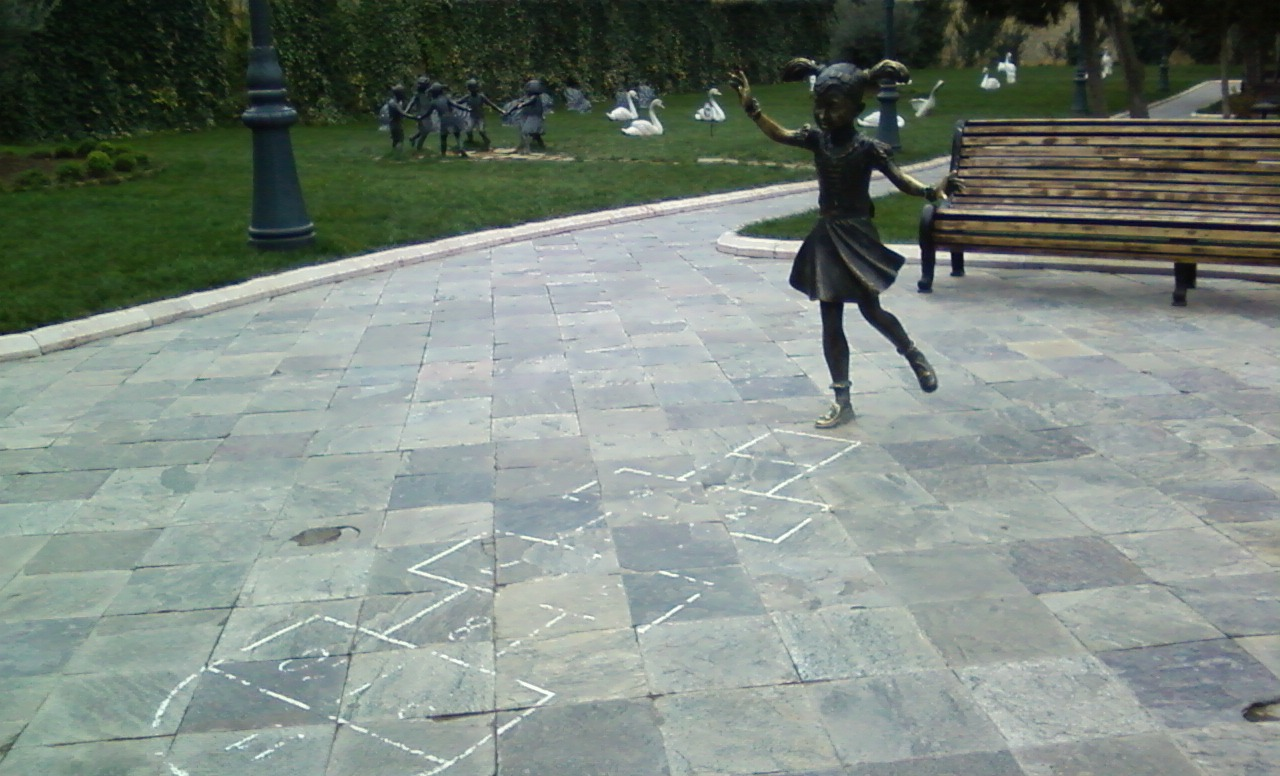 "Children playing". Officers Park in Baku